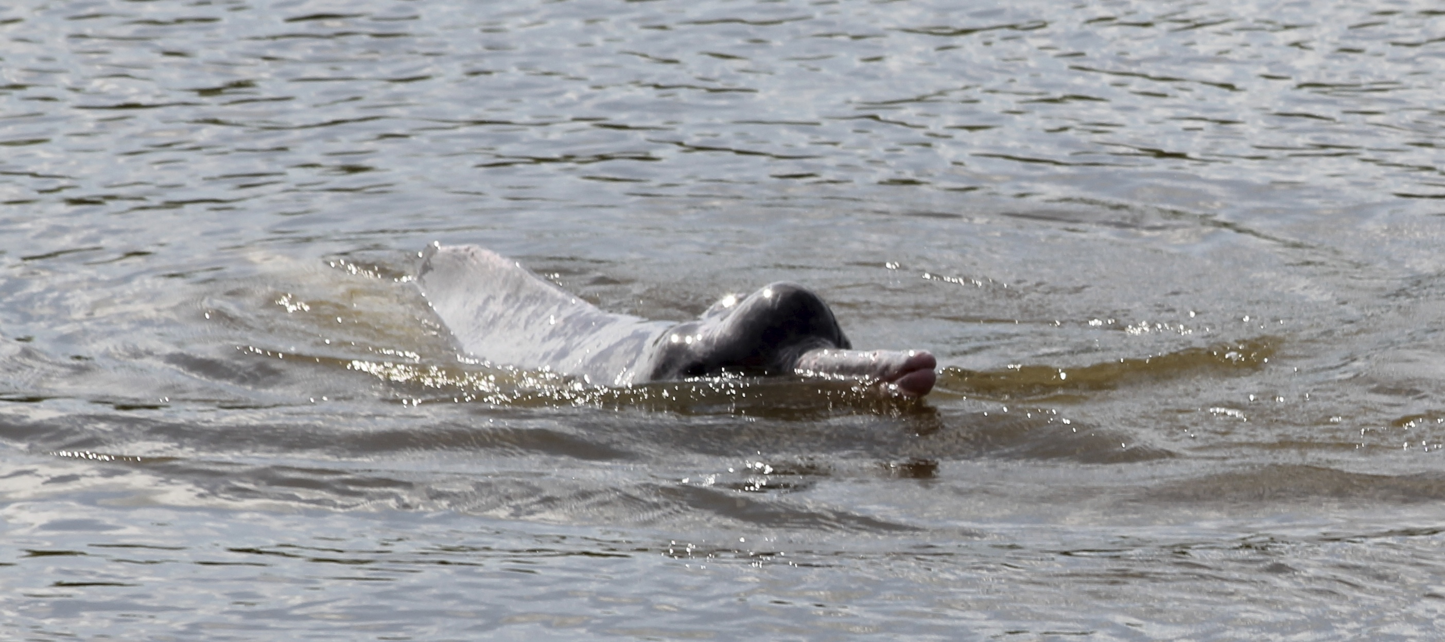 An Araguaian river dolphin (Inia araguaiensis) in Cantão State Park, Brazil